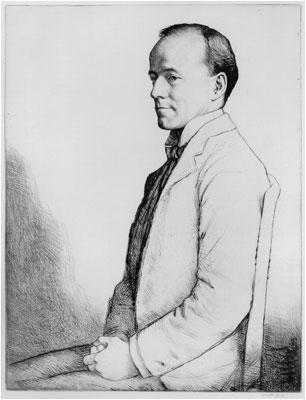 Portrait of Walter Runciman, 1st Viscount Runciman of Doxford